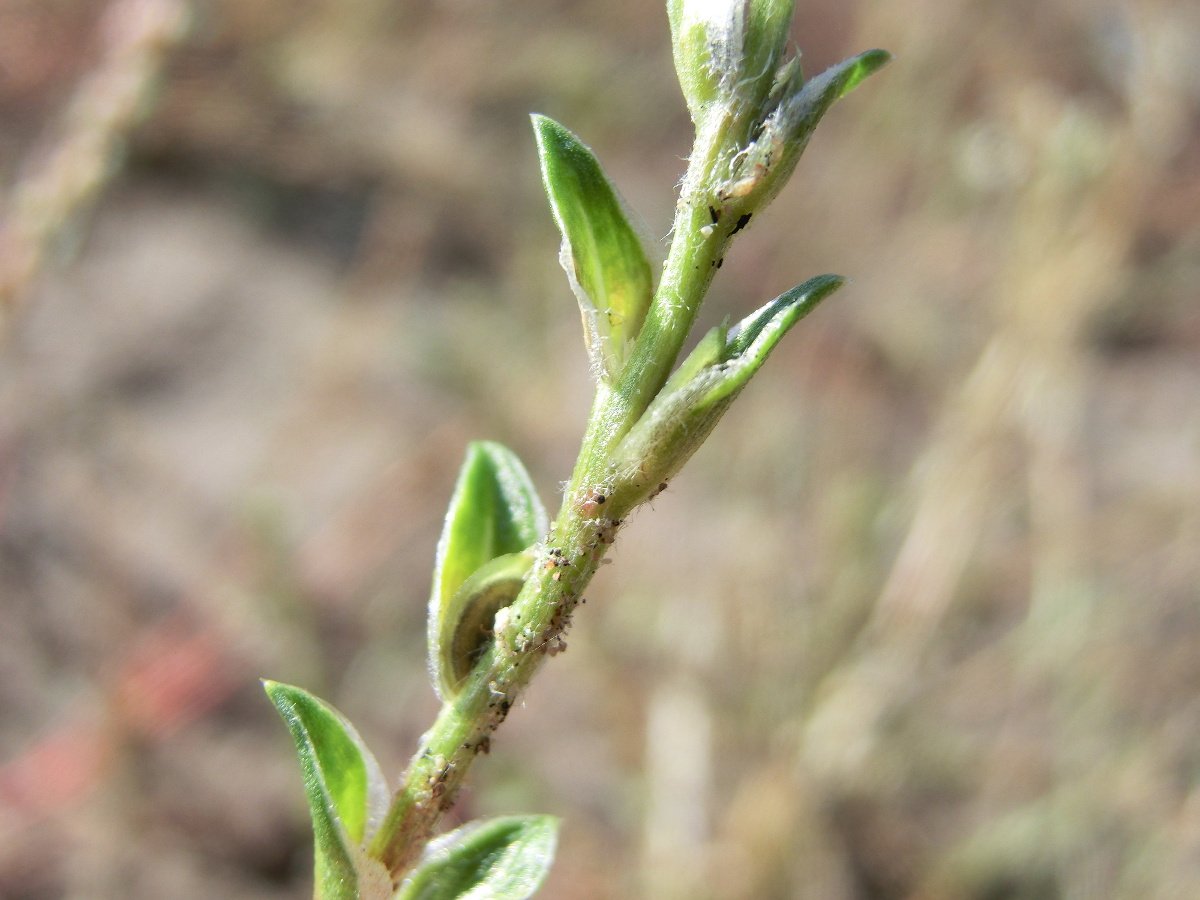 Corispermum leptopterum. Sand dune at Darmstadt-Eberstadt, Hessia, Germany.